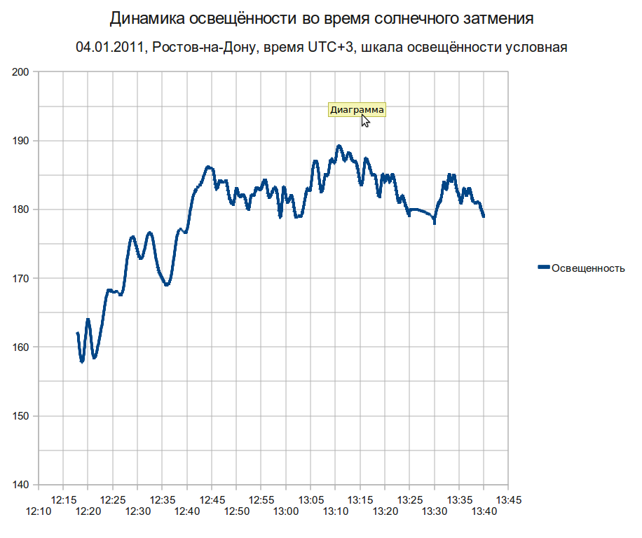 Weather prevents direct observation of eclipse at 4 of December, 2011, in Rostov-on-Don, Russia. Because of this, measurement of overall brightness level was made, unfortunately,only after eclipse maximum. Increasing of brightness are clearly visible.